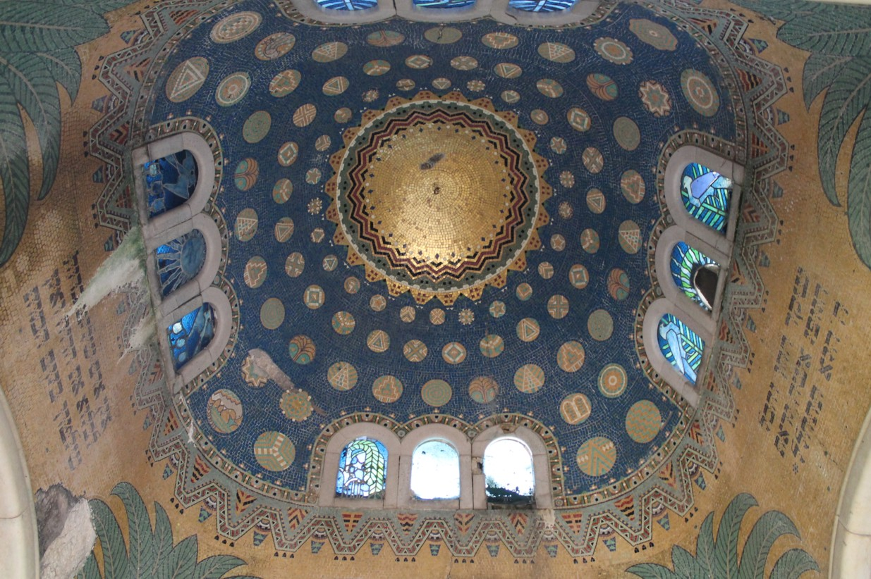 Family vault of Mrs. Benjámin Griesz by Béla Lajta, 1906-1908. Kozma street jewish cemetery, Budapest